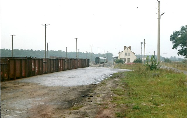 Bahnhof Altengrabow (Altengrabow railway station)